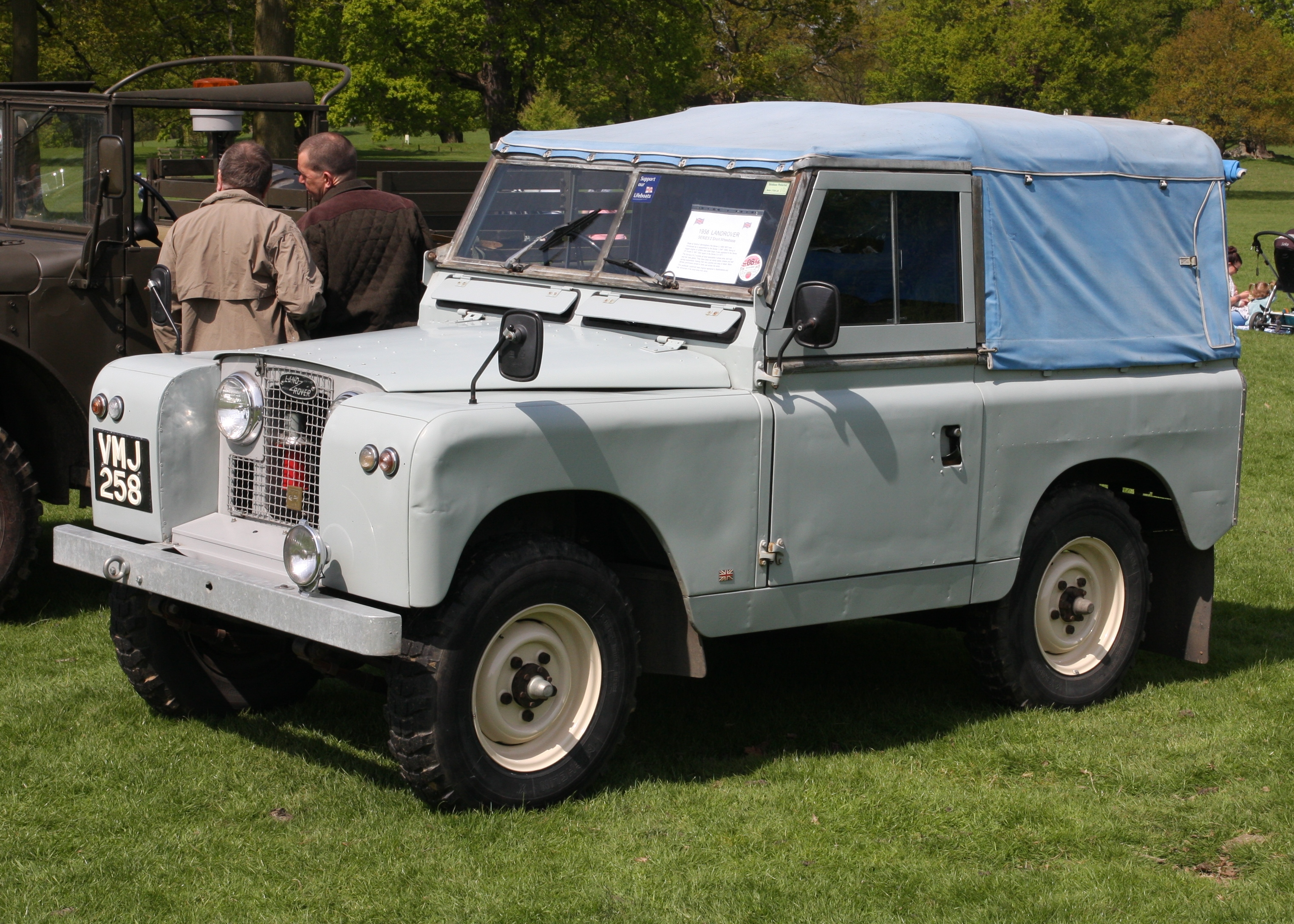 Land Rover swb Series 2 (1958, so one of the first S2s)